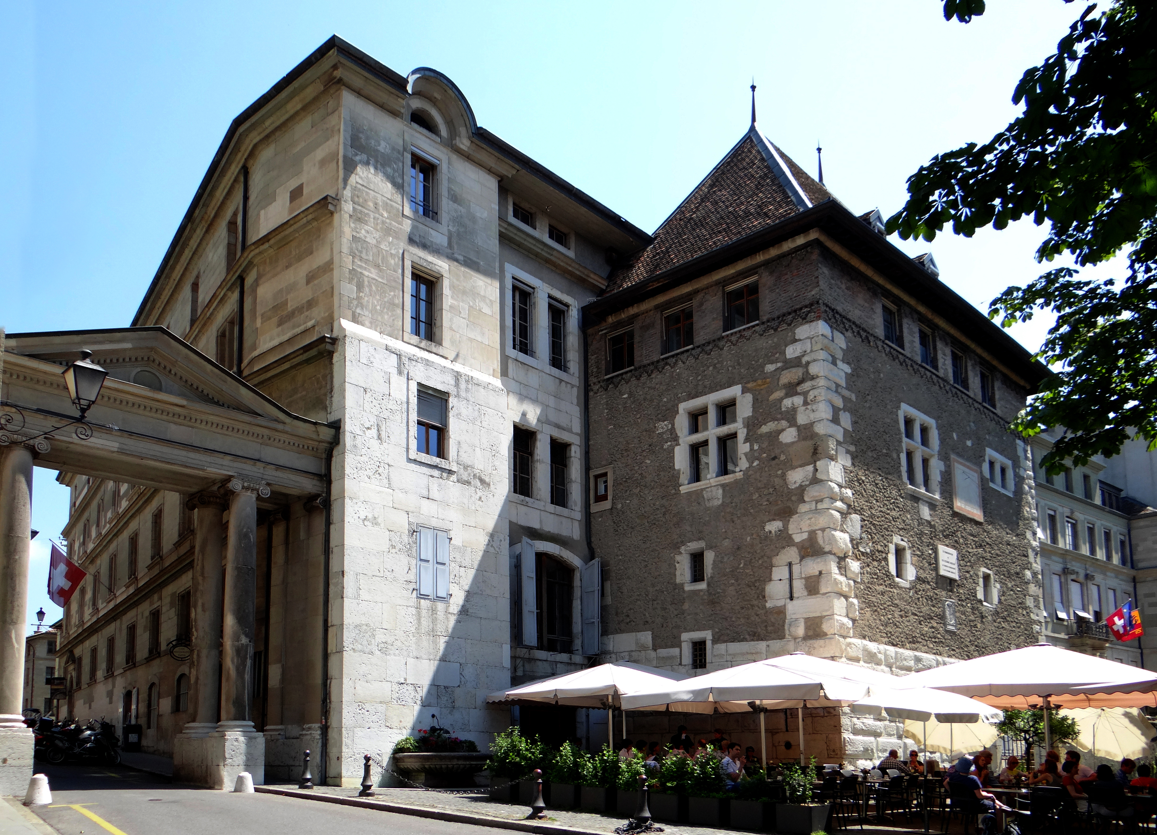 City Hall